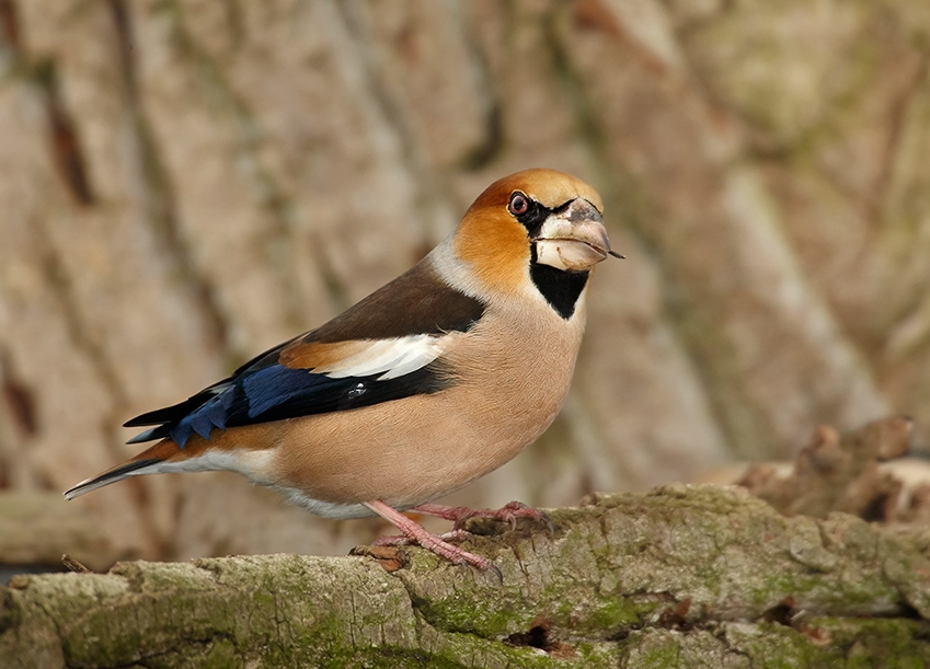 Coccothraustes coccothraustes